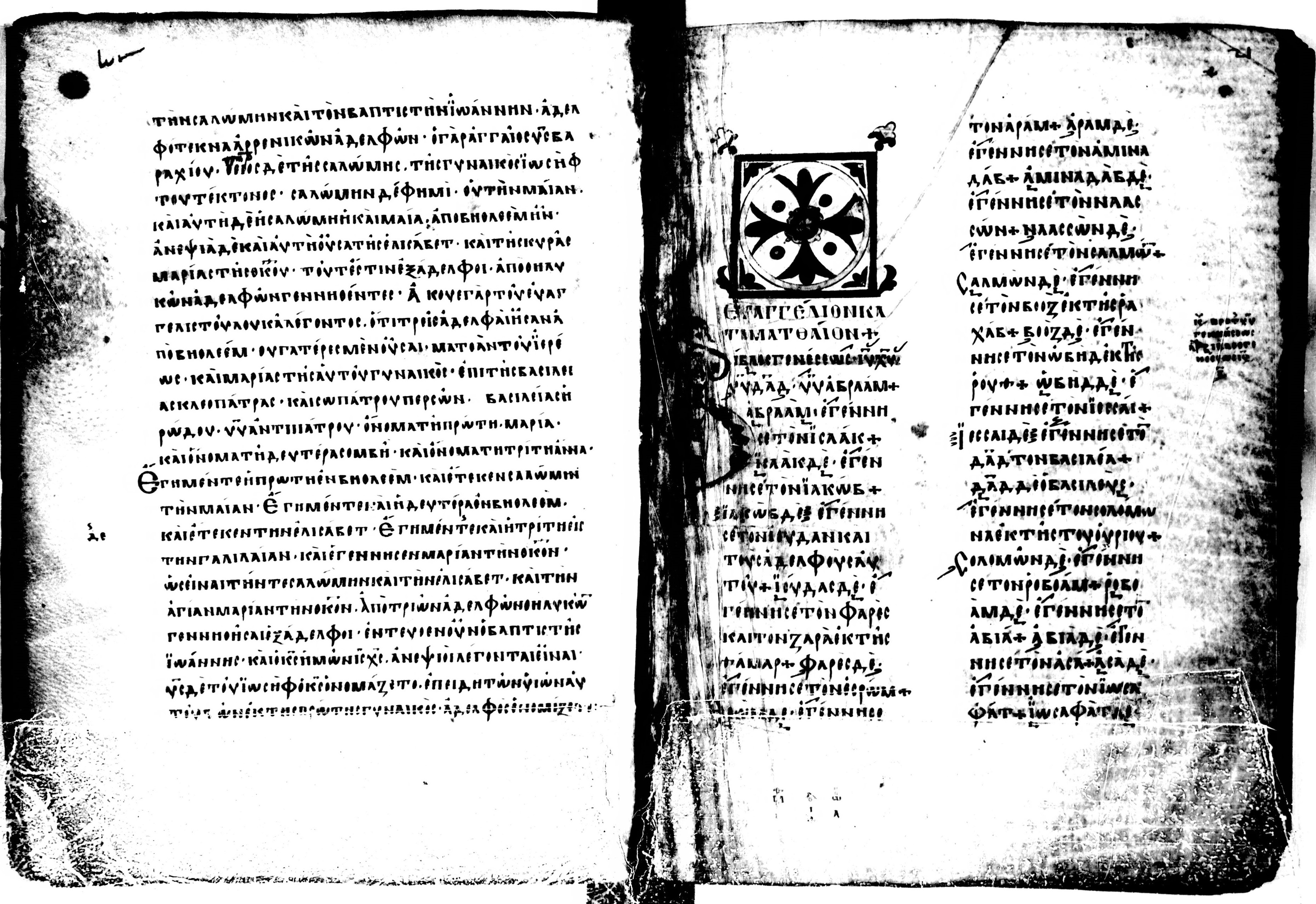 Codex Campianus 021 (Gregory-Aland) manuscript of the New Testament